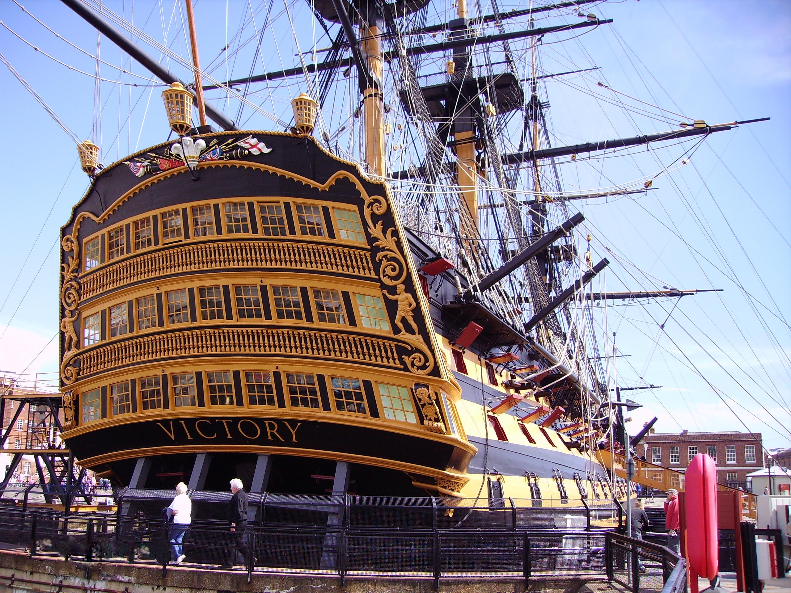 HMS Victory